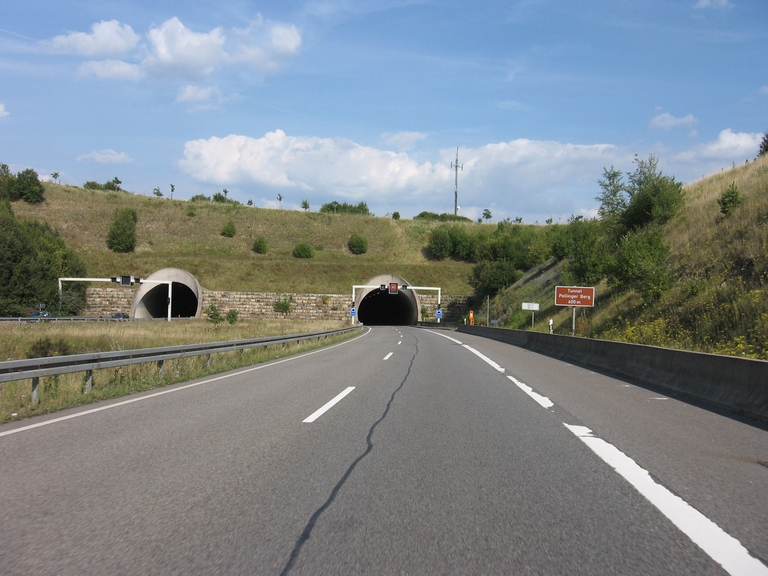 Bundesautobahn 8 tunnel Perlinger Berg